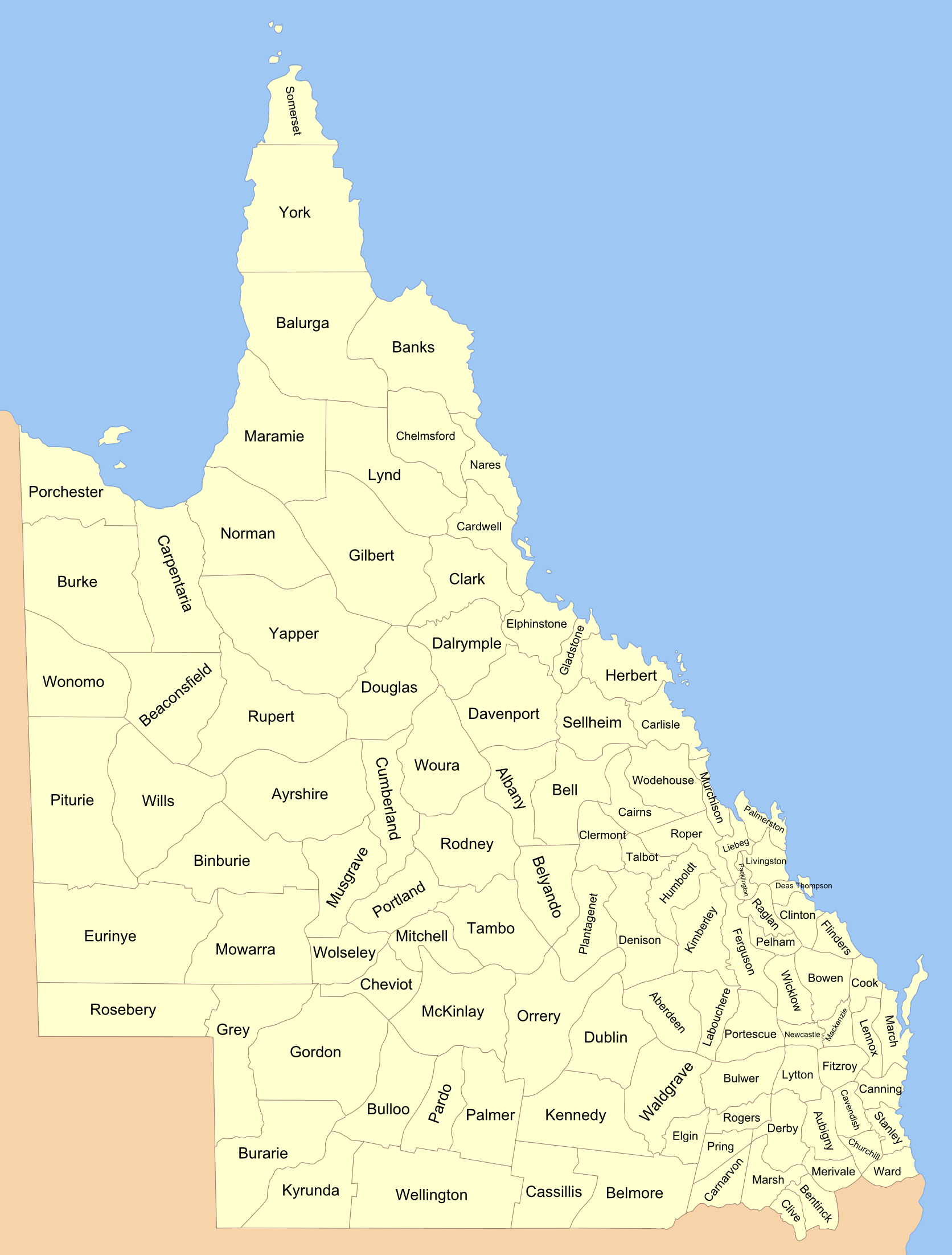 109 Queensland counties in 1893, made from public domain old map in National Library collection. (this is a historic map: these were later subdivided into 322 counties)